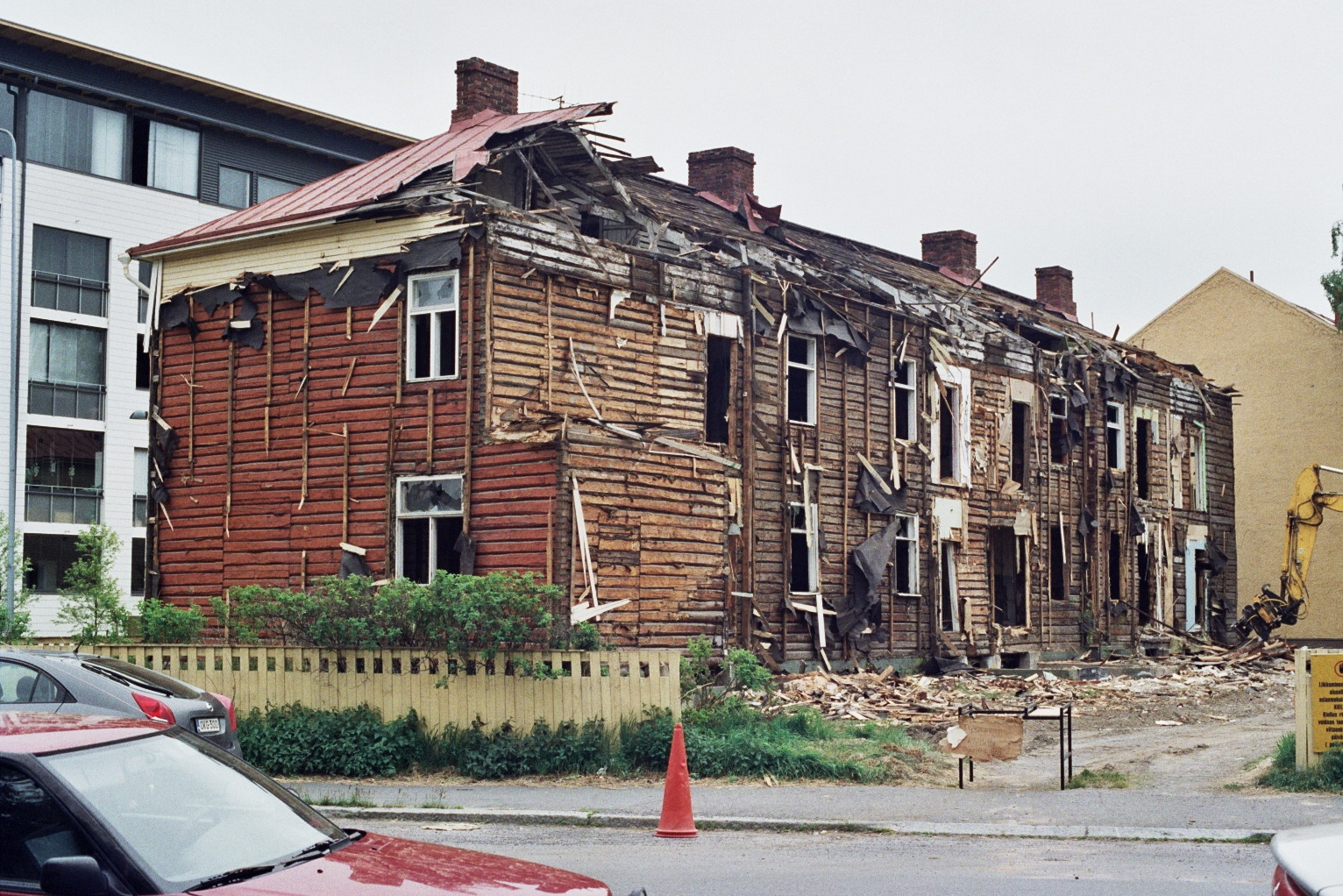 An old, partially demolished apartment building alongside the Siljonkatu street in the Leveri district of the city of Oulu in Finland. The demolition was largely completed in June 2009.